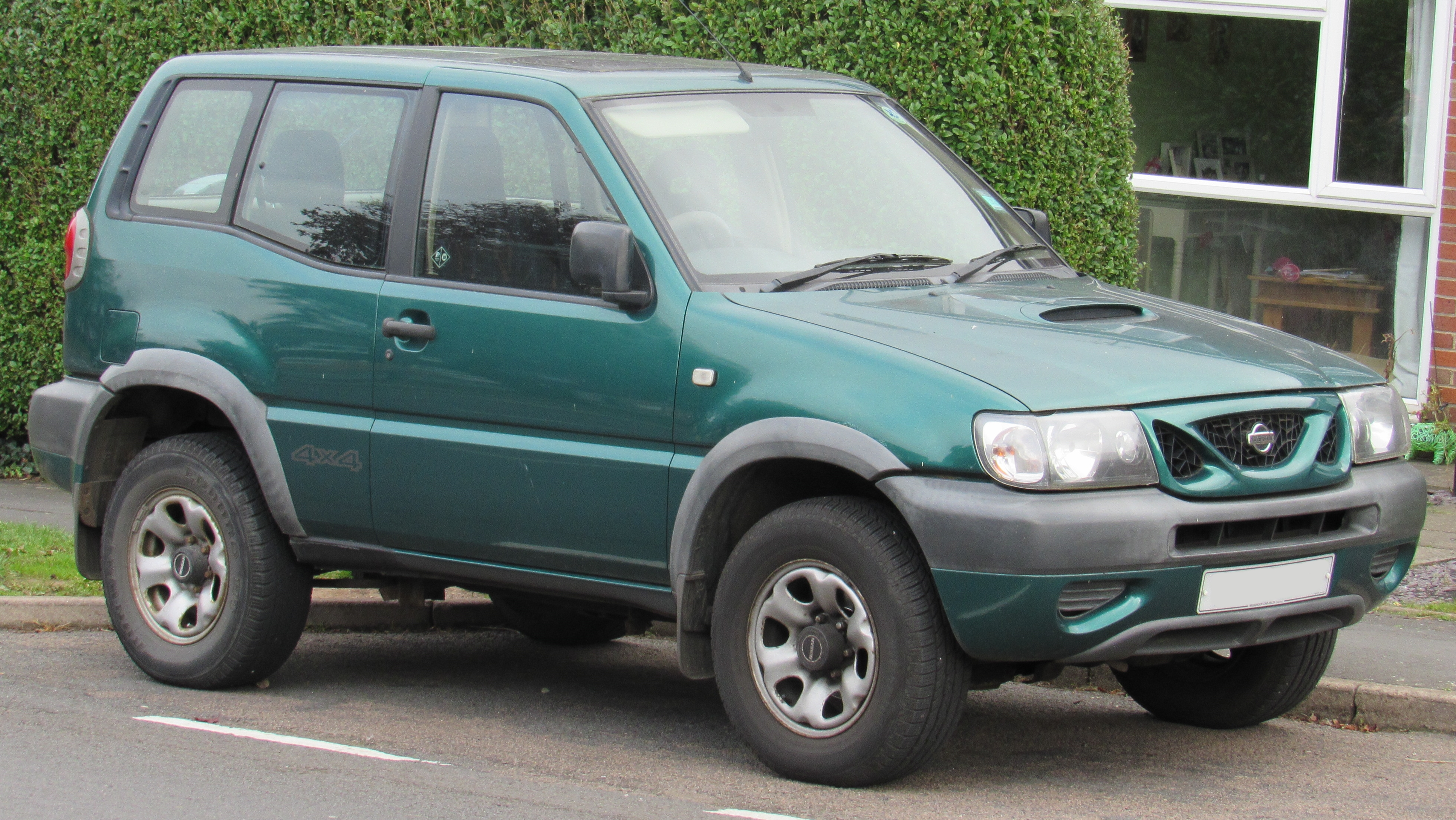 2001 Nissan Terrano II S 2.4 Front Taken in Leamington Spa